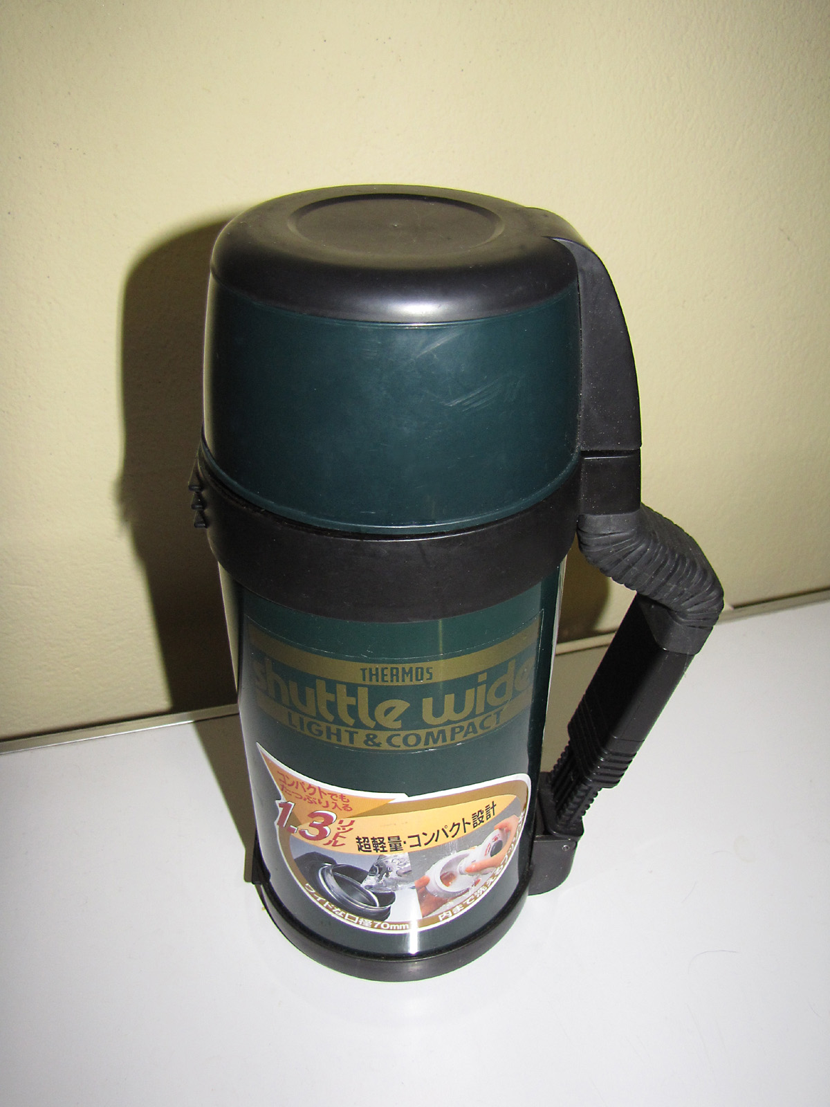 A vacuum flask made by Nippon Sanso Corp.